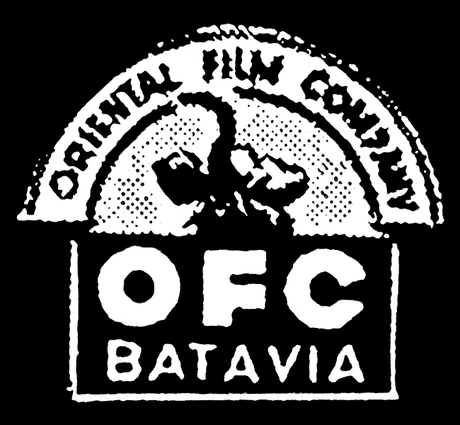 Oriental Film Company logo (1941)